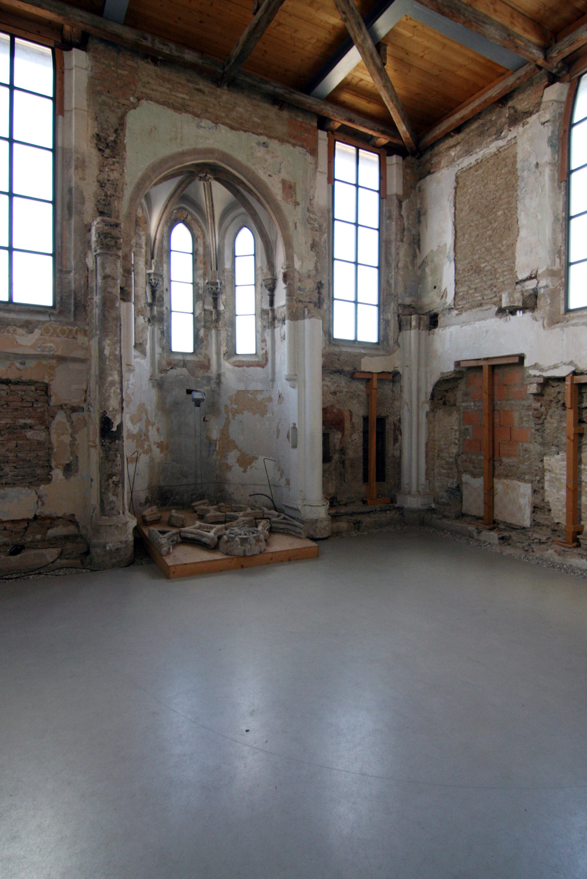 the chapel of Saint Catherine at the former city castle "Gozzoburg" (restoration works in progress, September 2012)